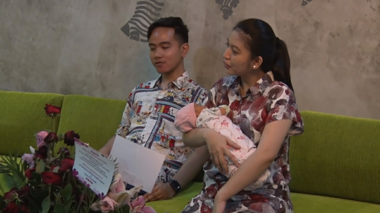 Between activities while in Solo, Ganjar Pranowo and his wife visited Mas Gibran and Mba Selvi's second daughter. A warm welcome was also given by Jan Ethes when meeting us that night at the Gibran residence. This is the first time Ganjar has seen La Lembah Manah firsthand since he was born, last Friday (15/11) at PKU Muhammadiyah Surakarta. The name La Lembah Manah was chosen for President Joko Widodo's third grandson. A name that has an extraordinary meaning.